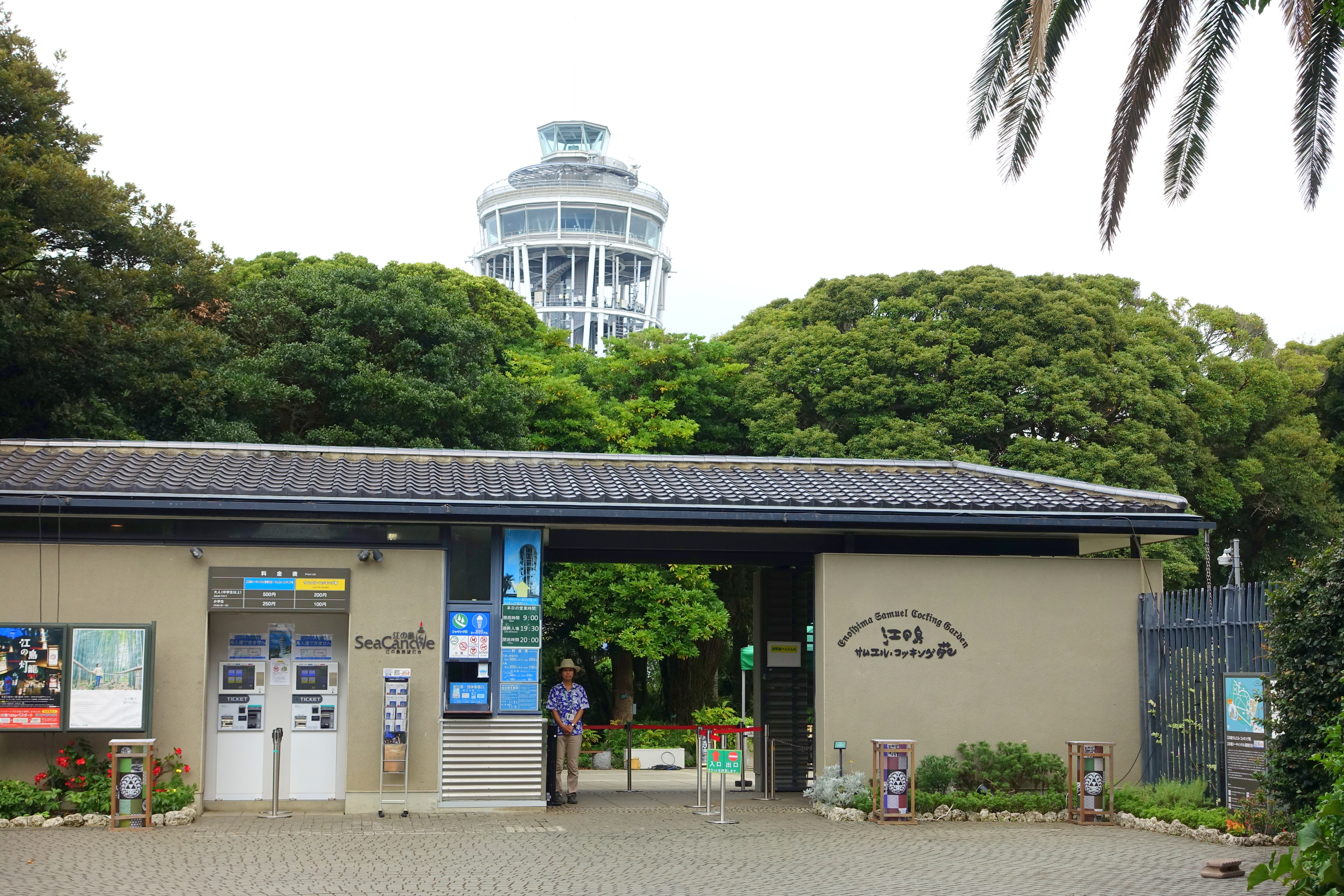 Samuel Cocking Garden - Enoshima, Japan.